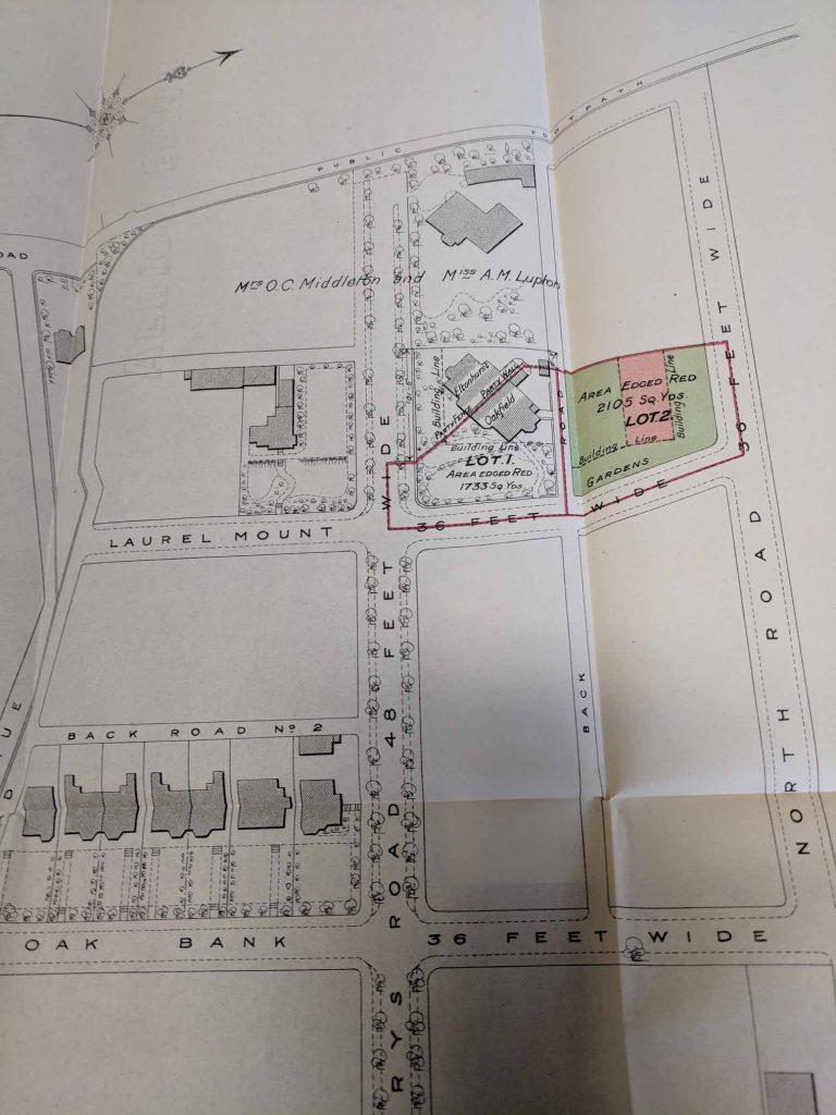 1920 map